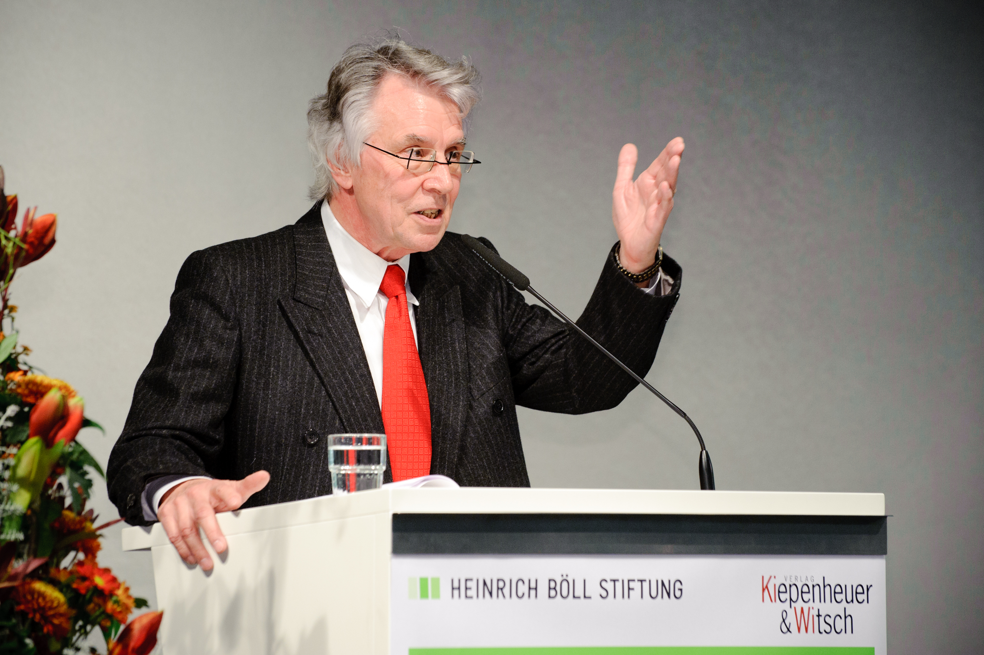 Foto: Stephan Röhl